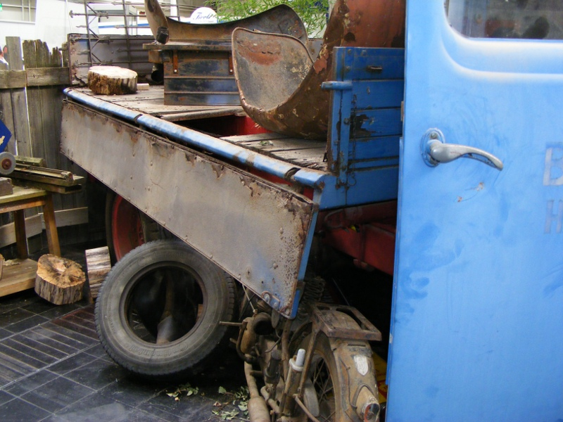 An example of Cross Processing with Gimp